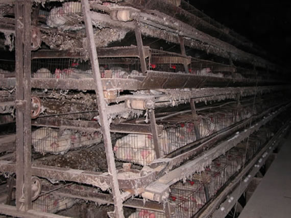 Battery cages, where?